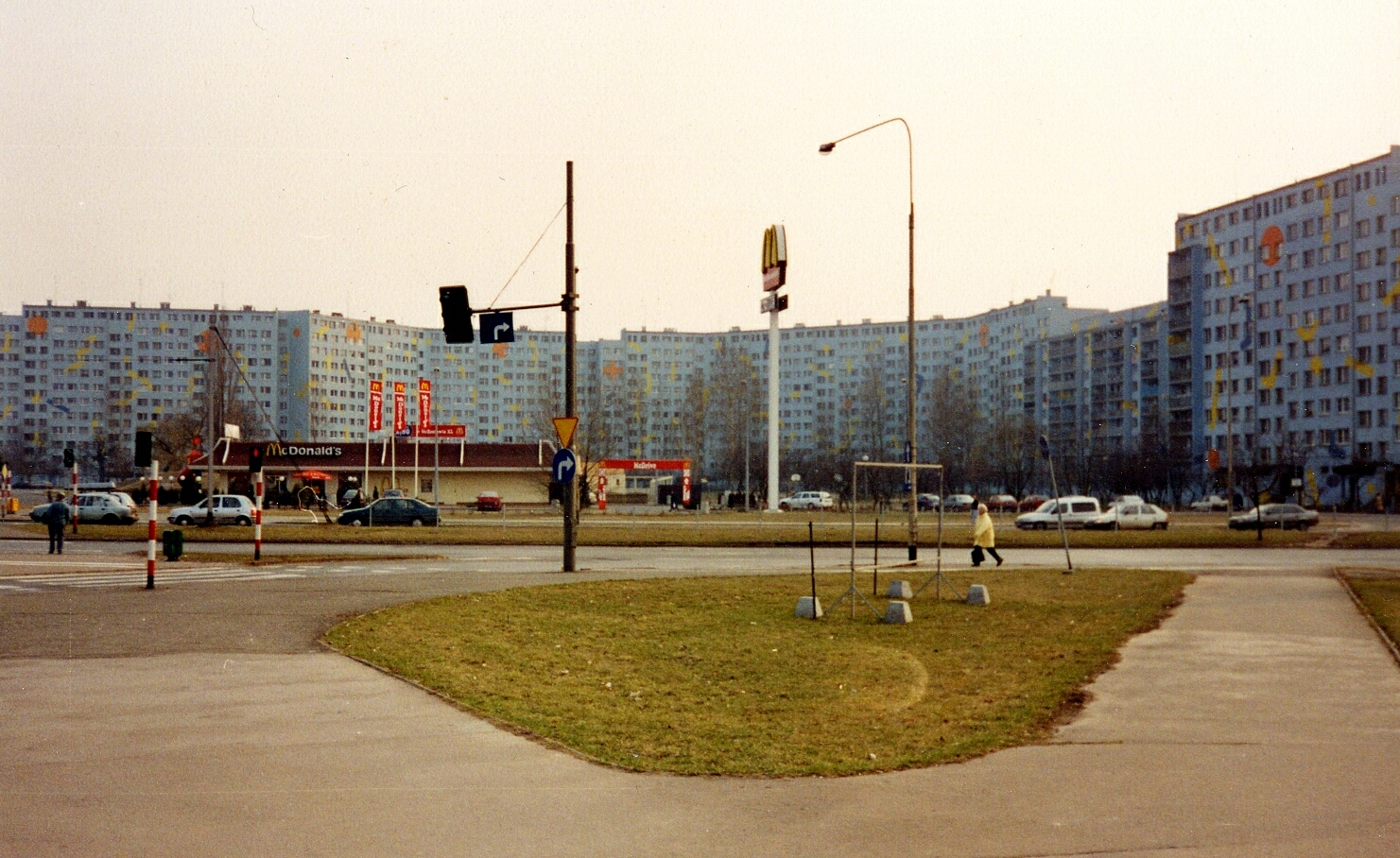 Wrocław, Poland. Gaj (read: Guy) building estate seen from north east.